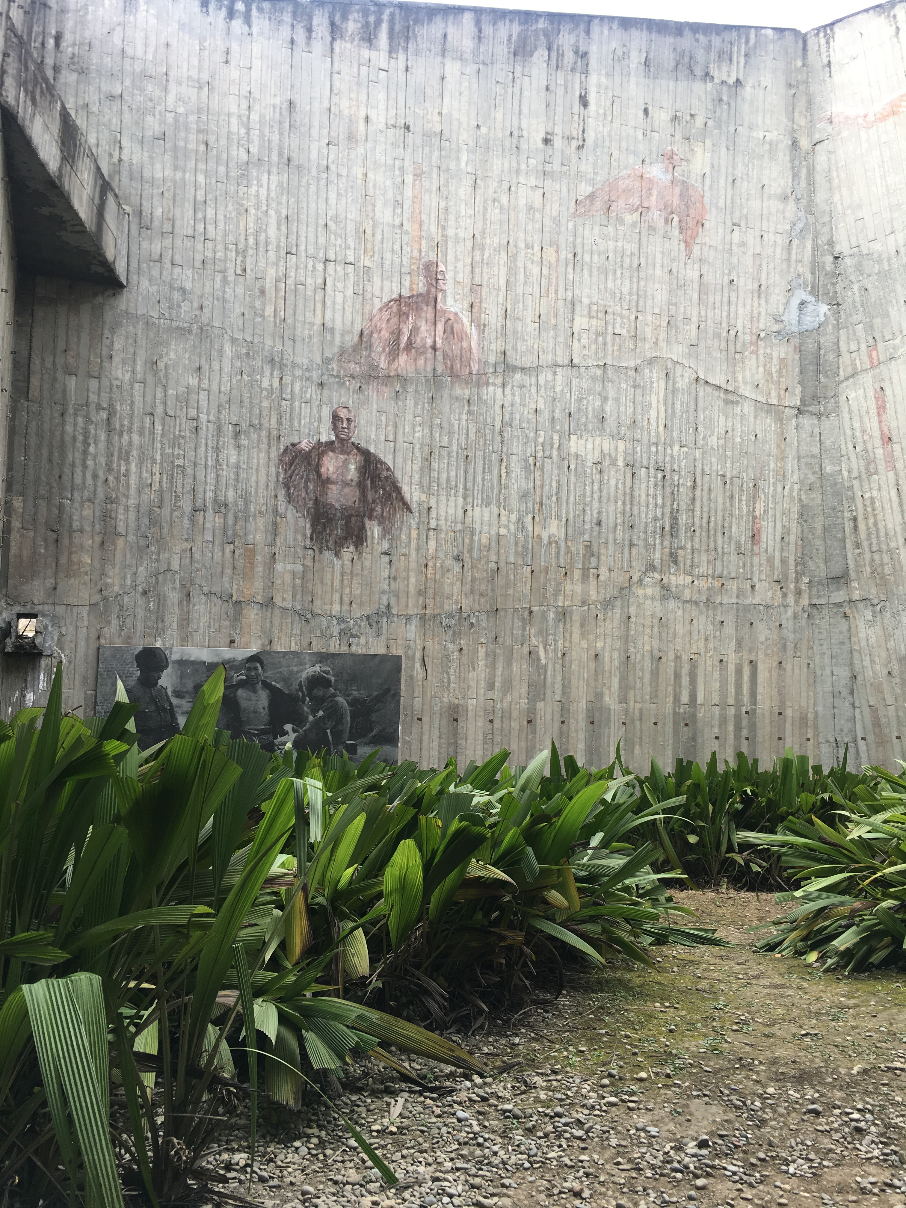 Unyielding prisoner of war sculpture